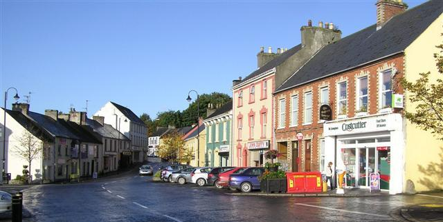 Cropped version of Image:Raphoe Town - .uk - 998448.jpg